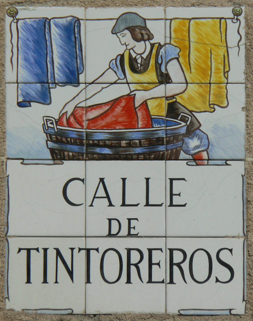 Sign of Calle de Tintoreros (street, Centro district) in Madrid (Spain).